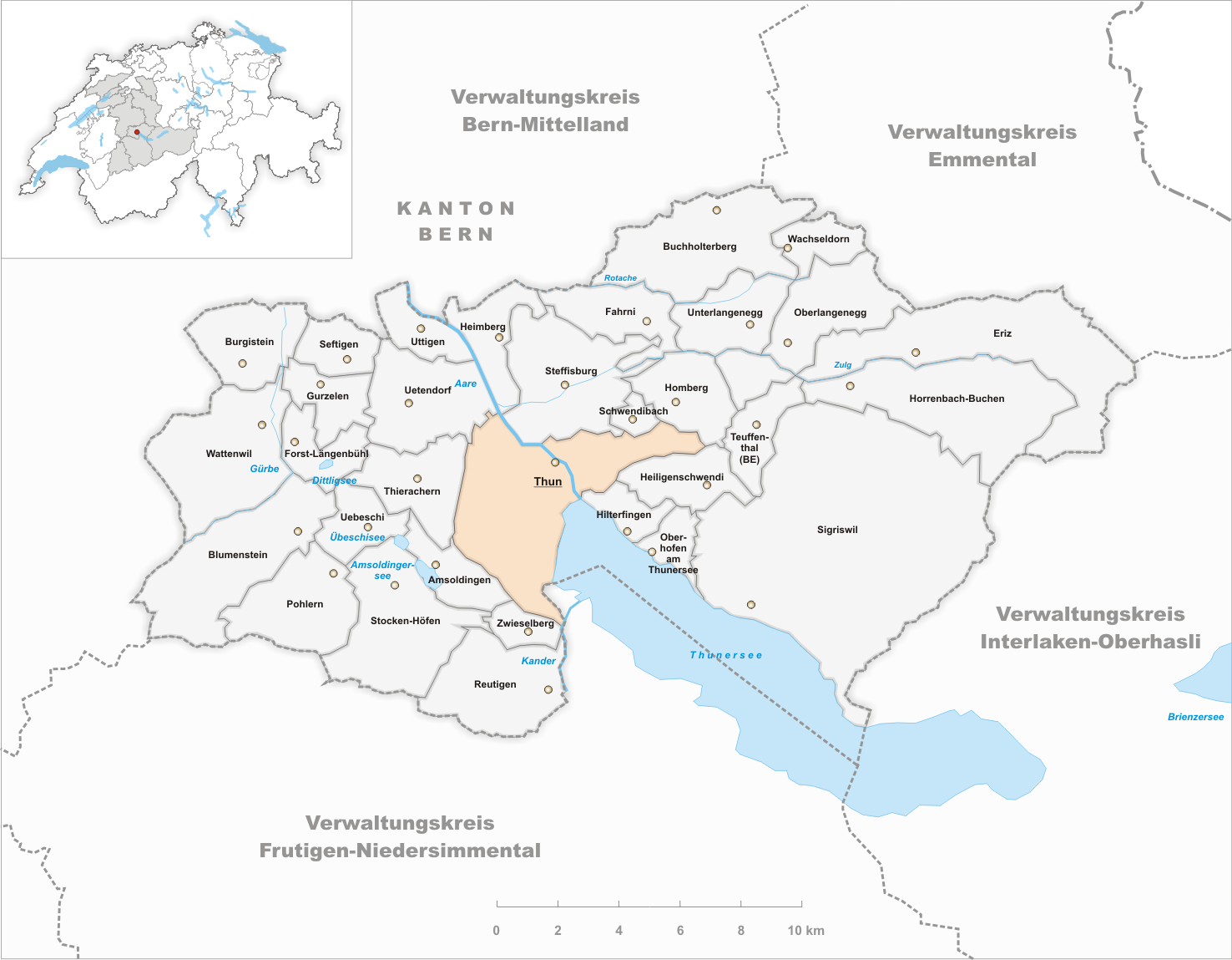 Municipality Thun